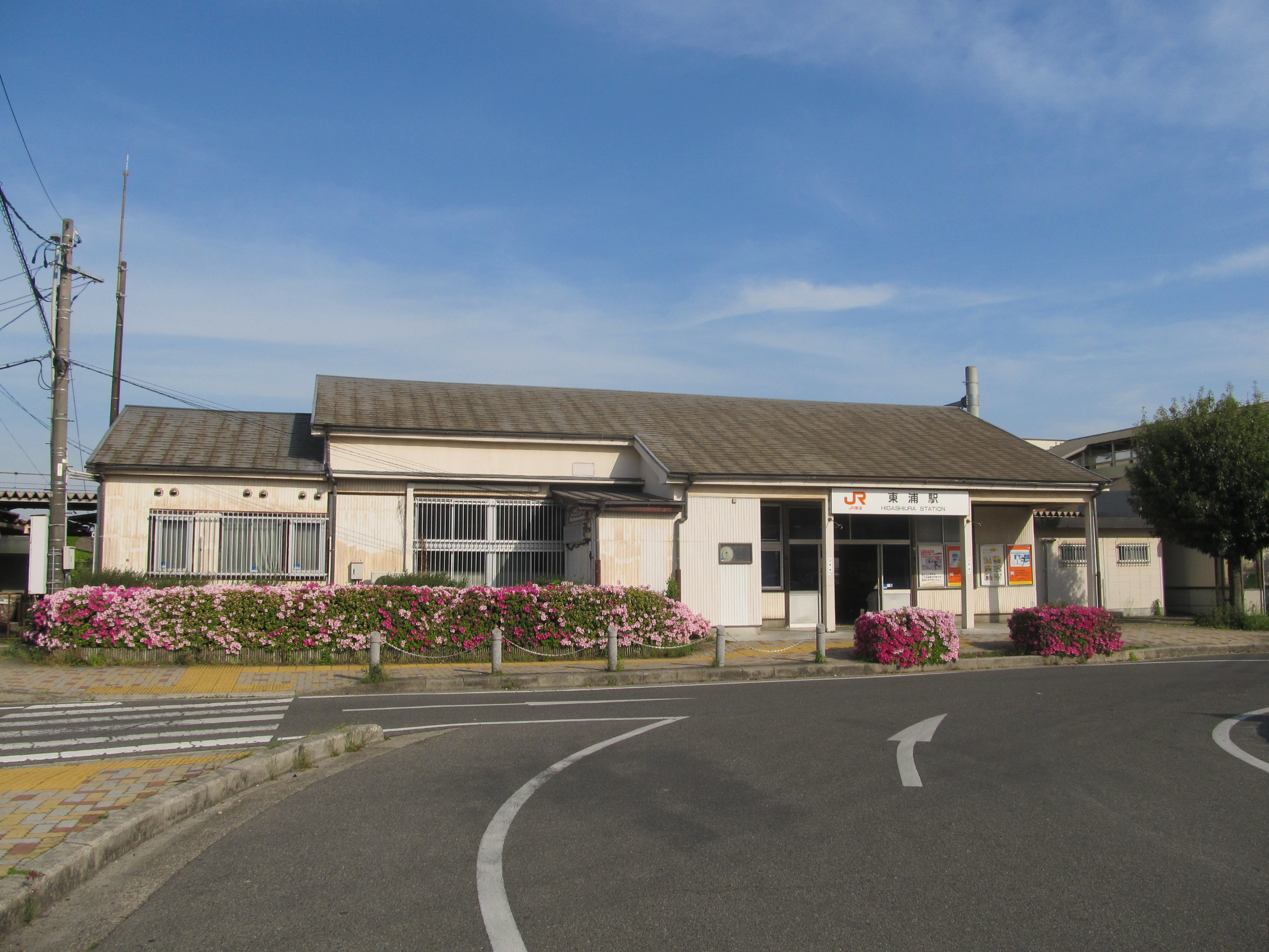 Central Japan Railway Taketoyo Line Higashiura Station Building